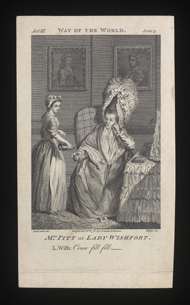 Mrs Pitt as Lady Wishfort in Way of the World by William Congreve 26/10/1776